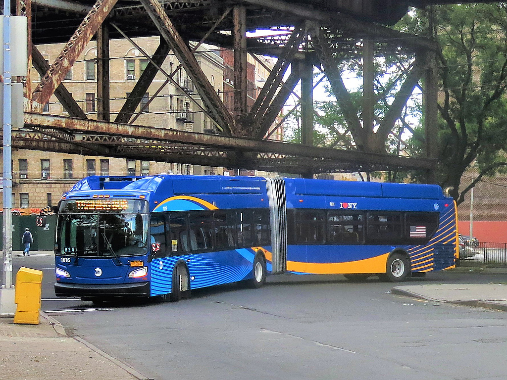 The first of an order of CNG-powered articulated buses for the MTA, bus #1016 (in the new livery) is training bus operators at the West Farms Depot to operate this model. The garage is less than 1000 feet away, and over the bus is the West Farms Square-East Tremont Avenue station.